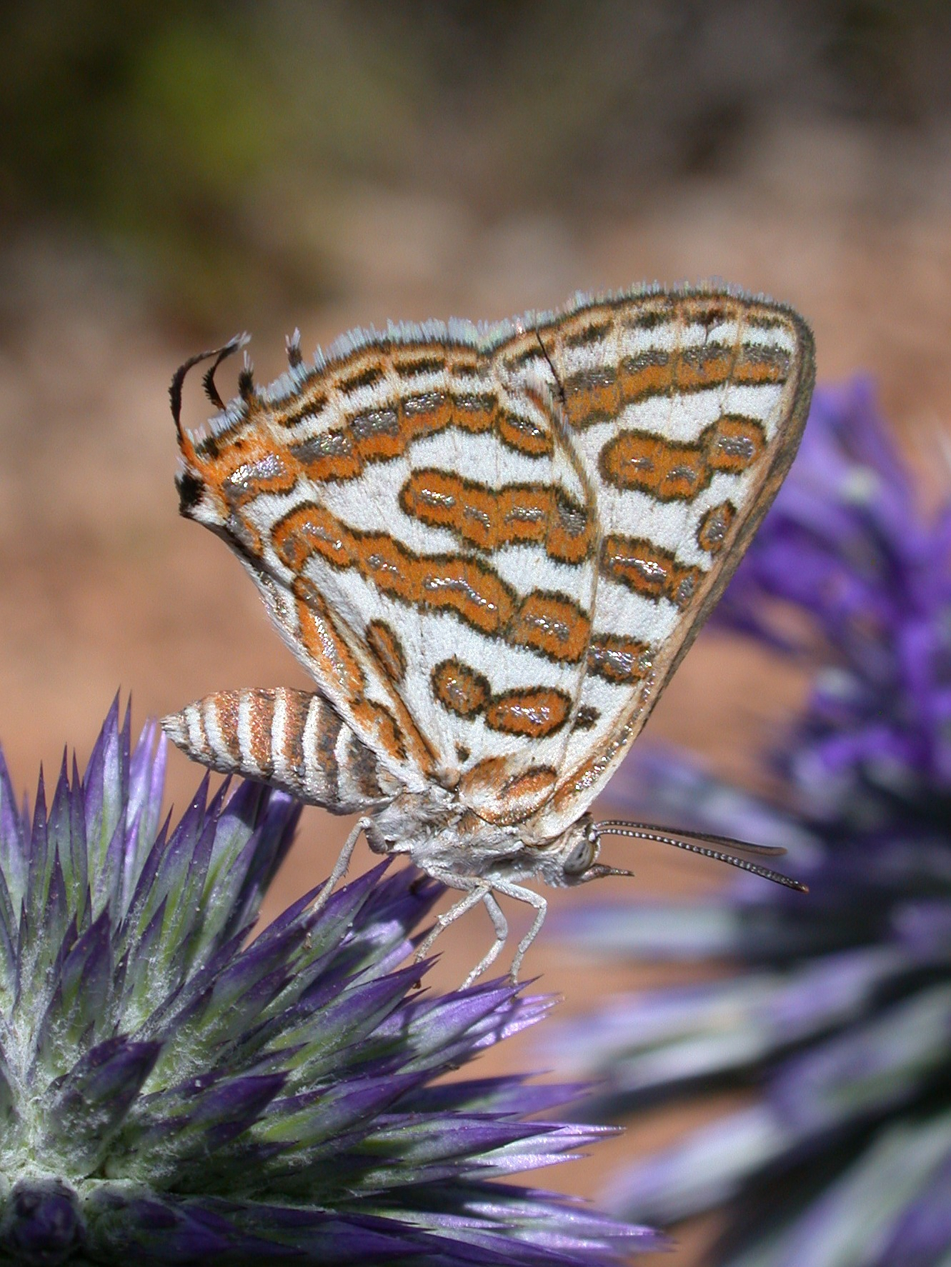 Apharitis acamas resting on Echinops adenocaulos (כחליל מנומר על קיפודן מצוי), Mount Carmel, Israel, June 27, 2009.